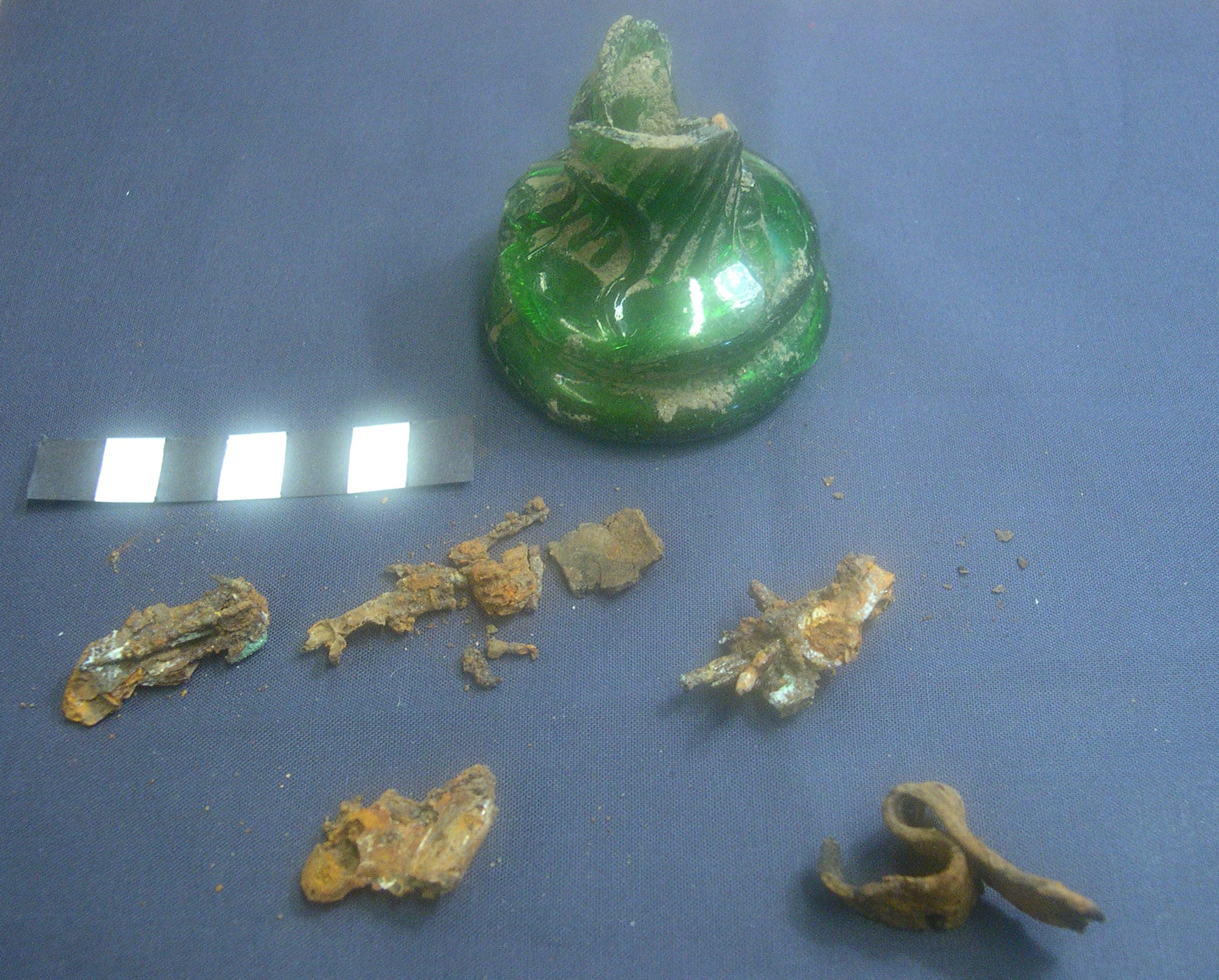 Number 31: Witch-bottle